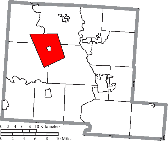 Map of the municipal and township boundaries of Pickaway County, Ohio, United States, as of the 2000 census, with the location of Muhlenberg Township highlighted. Township borders are shown only in unincorporated areas in order to differentiate incorporated and unincorporated areas more clearly.